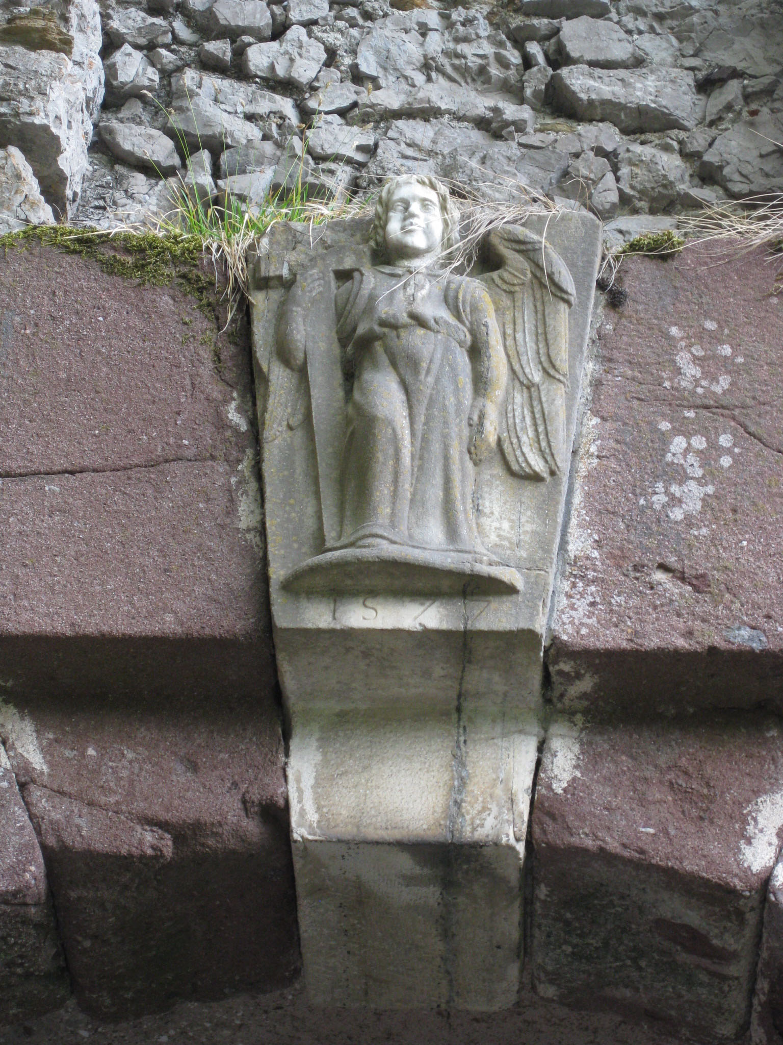 Hochosterwitz castle (slovenian: grad Ostrovica), castle in Carinthia state, Austria 4th door